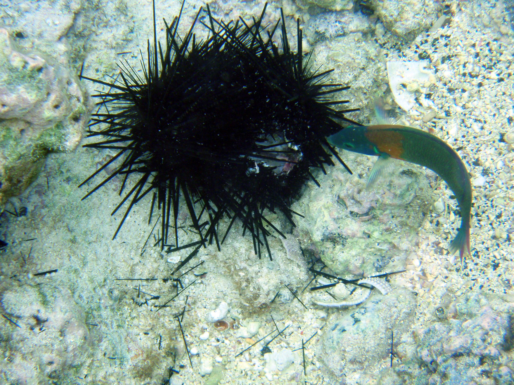 Saddle Wrasse, Thalassoma duperrey feeding on sea urchin in Kona, Hawaii